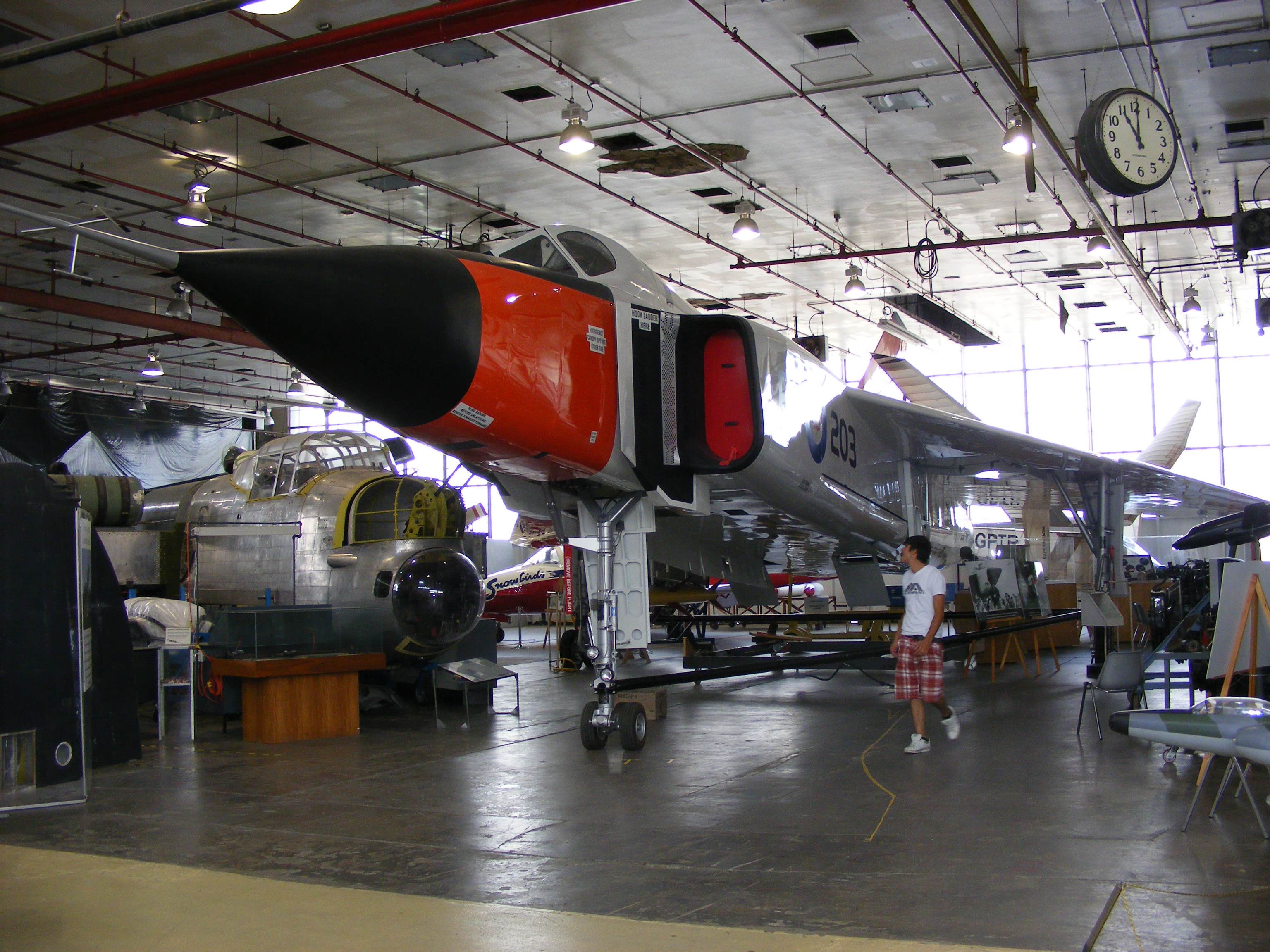 Full-sized replica of an Avro Arrow on display at the Canadian Air and Space Museum, Downsview (Toronto).